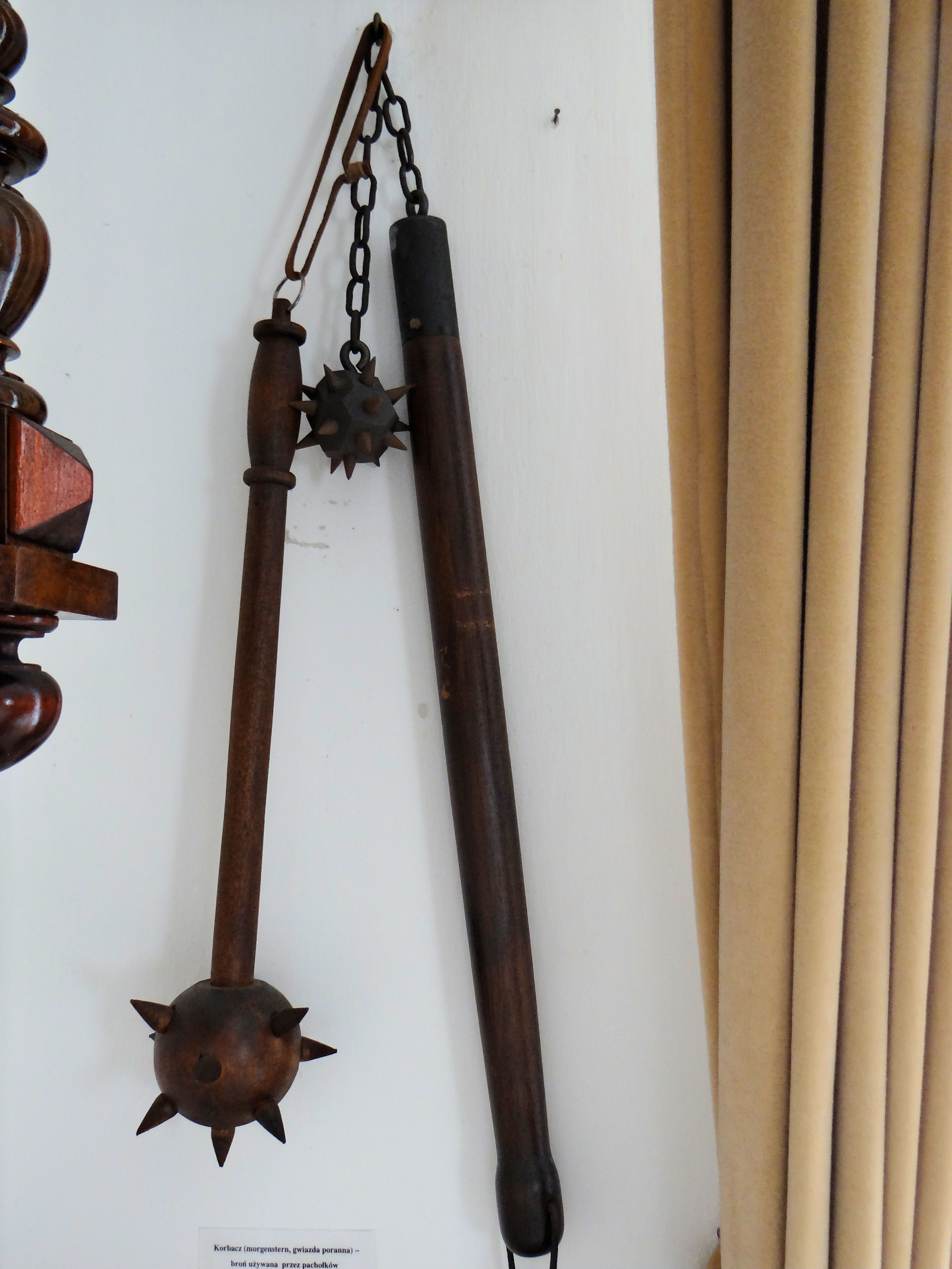 Interior of Manor in Pilaszków